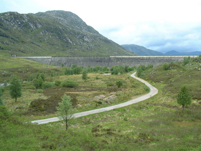 Cluanie Dam. Loch Cluanie (known in Gaelic as Loch Cluanaidh) is actually a reservoir, invisible here behind the massive wall of the Cluanie dam. The dam was built in the 1950s as a component in the North of Scotland Hydro-Electric Board's Glenmoriston generation project. The road seen running towards to dam is a remnant of the General Wade road. Since it was put under water it has twice been replaced by more modern stretches of the A87 trunk road which runs along the north shore of the loch.